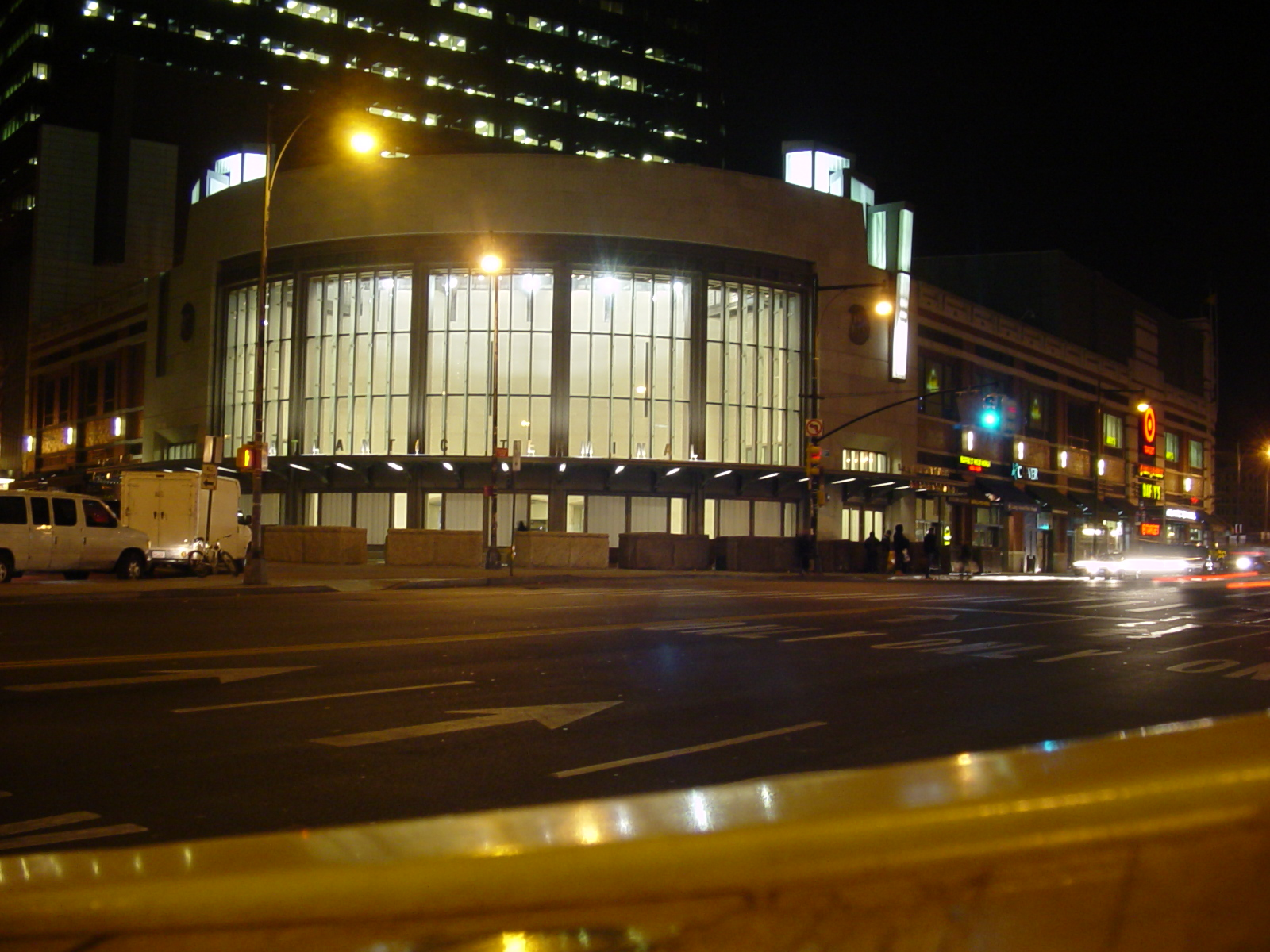 Atlantic Terminal (Atlantic Terminal) station building at night, January 2010